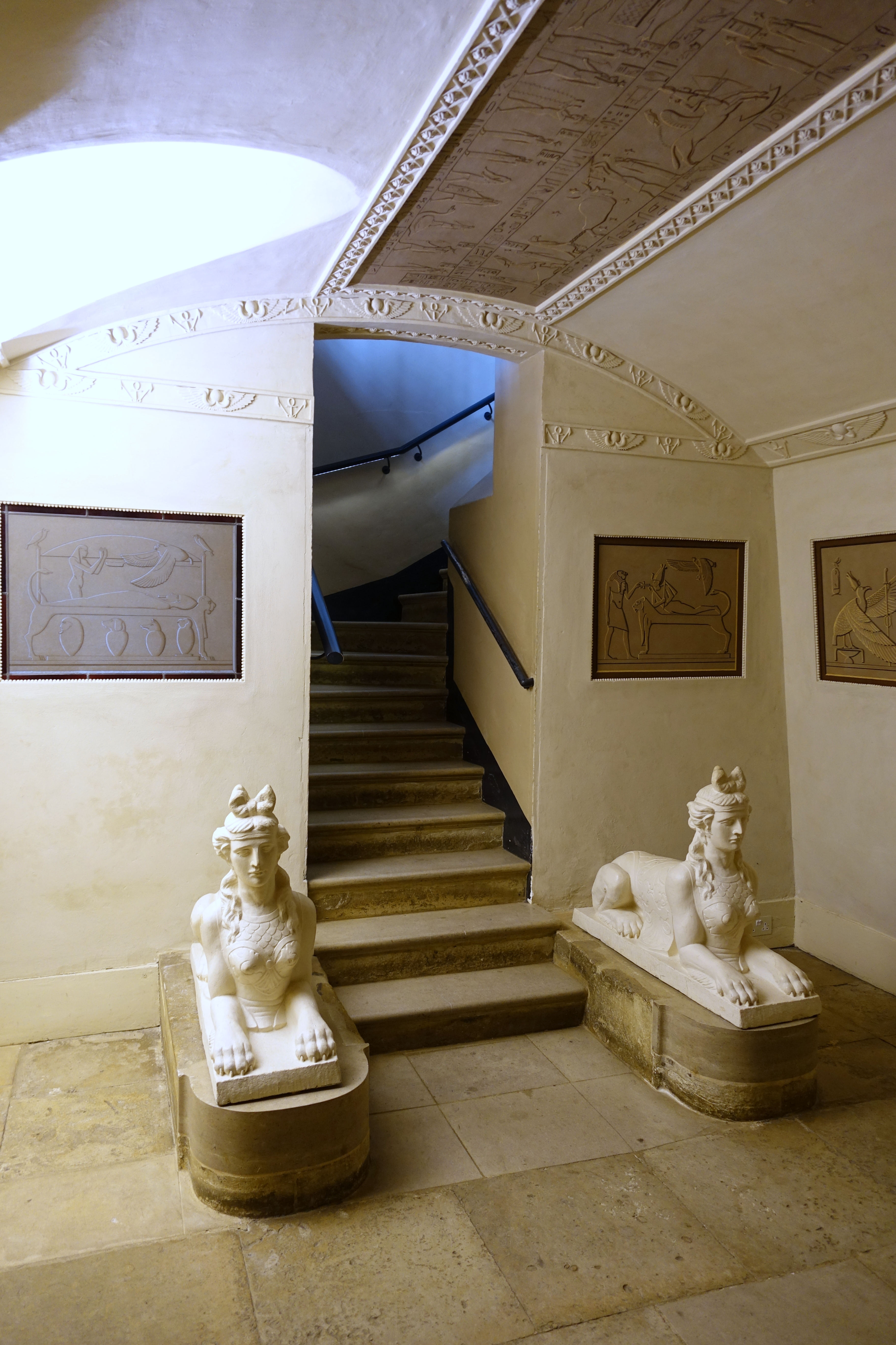 Interior view of Stowe House - Buckinghamshire, England.